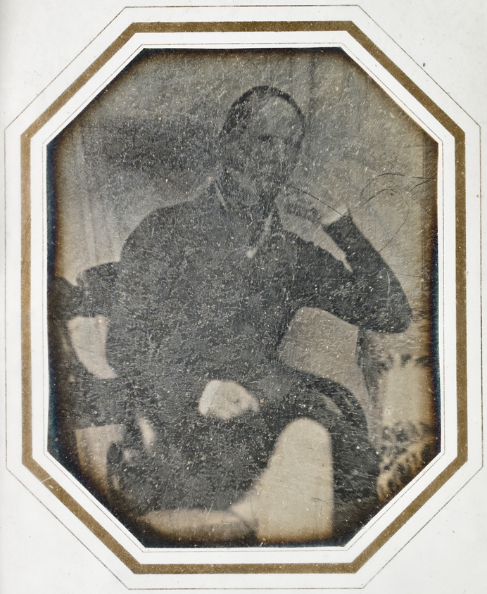 Portrait of Consulate Secretary Johan Fredrik Crusenstolpe (1801–1882). Daguerreotype by Joseph Wenninger, 1843. Item no. 84757. Reproduction photo: Mats Landin. Nordiska museet.